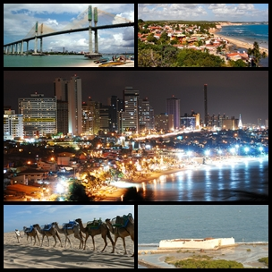 From upper left: Newton Navarro bridge; Pipa Beach; Natal skyline at night; Genipabu dunes; and Three Kings fort.